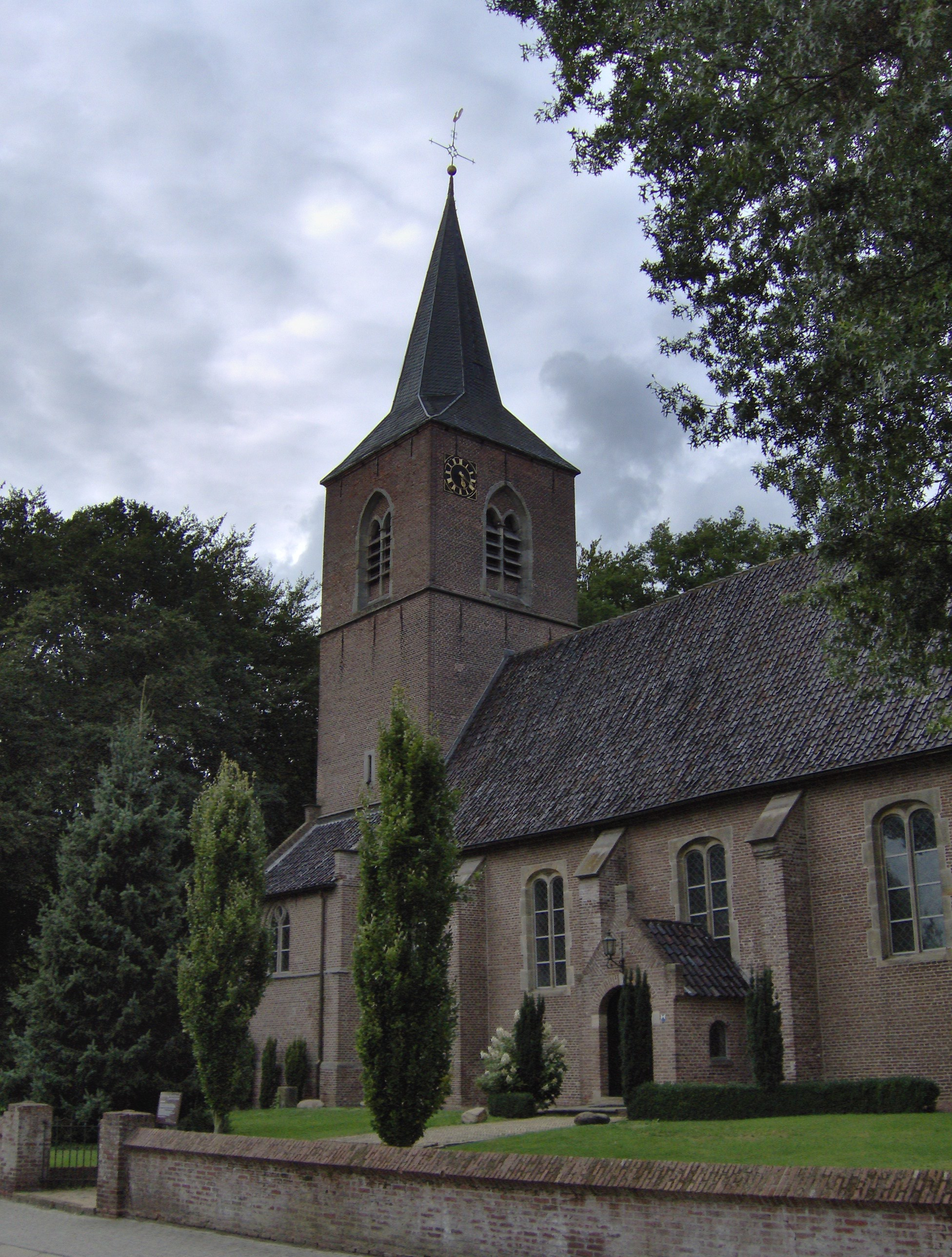 The Johanneskerk, a Dutch Reformed church in Diepenheim, a city in the municipality of Hof van Twente, Netherlands